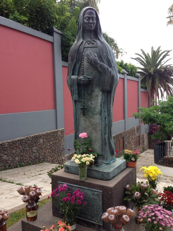 Estatua de La Siervita de Dios en su casa-museo en El Sauzal. (Tenerife).